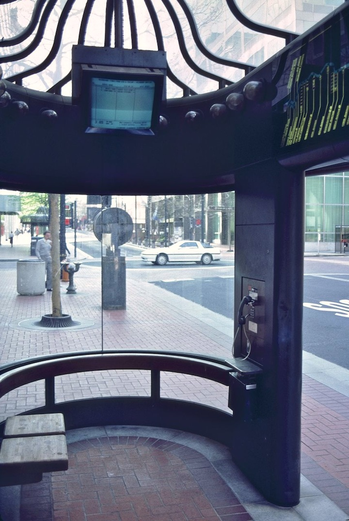 Interior of a passenger shelter at bus stop on the Portland Mall transit mall (in Portland, Oregon) in 1987, showing the closed-circuit TV monitor giving departure information for each route and, at right, a pay telephone (with yellow pages phone book hanging below it). This specific shelter was on 6th Avenue just north of Stark Street, and at that time was served only by buses ending their trips within downtown, at Union Station, and the monitors did not give departure times for that service. Installed in 1977, these original black-and-white monitors were replaced by color ones in 1988. At top right is a map of TriMet's only light rail line at the time, the Portland–Gresham line.